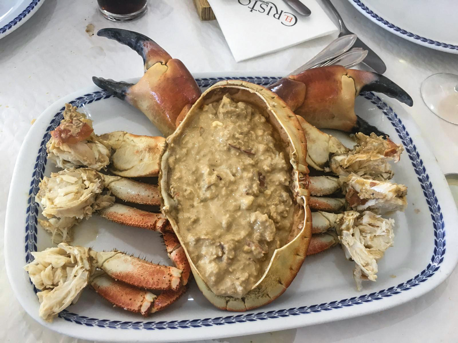 Restaurante El Cristo, Elvas. Sapateira (Cancer Pagurus) Buey de mar, preparado como changurro.